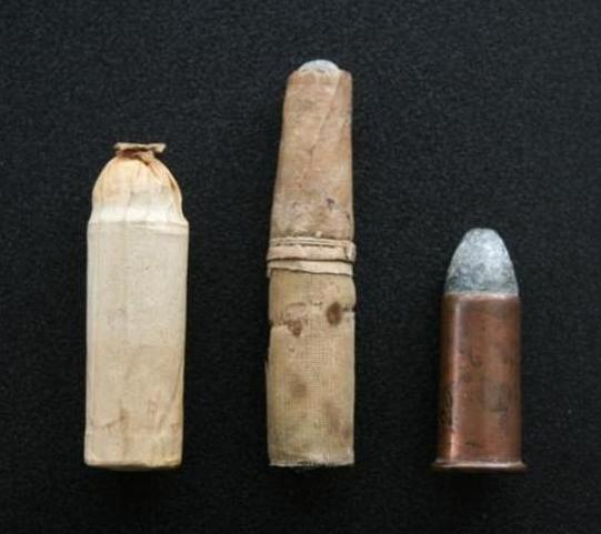 Breech Loader Cartridges, 1860's L: Paper cartridge for Dreyse M: Paper cartridge for Chassepot R: 56-50 Spencer Rim fire cartridge